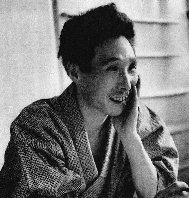 Shotaro Yasuoka